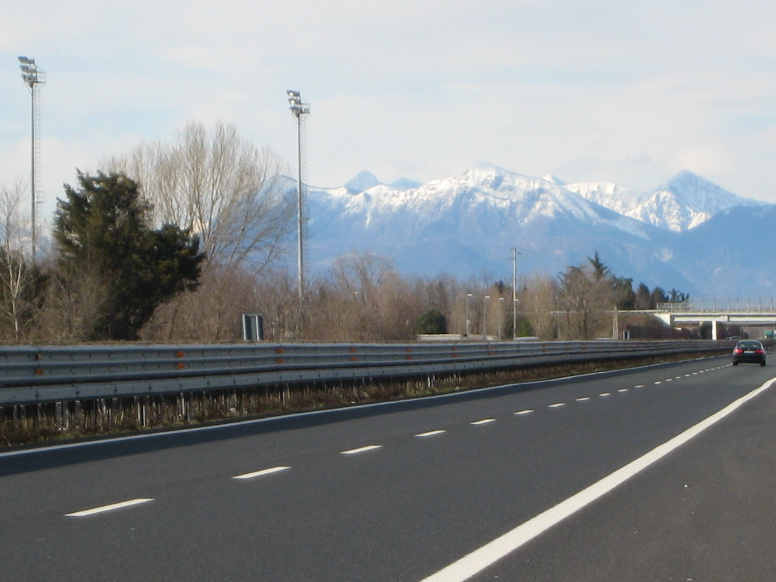 Italy - Highway A23 Udine sud